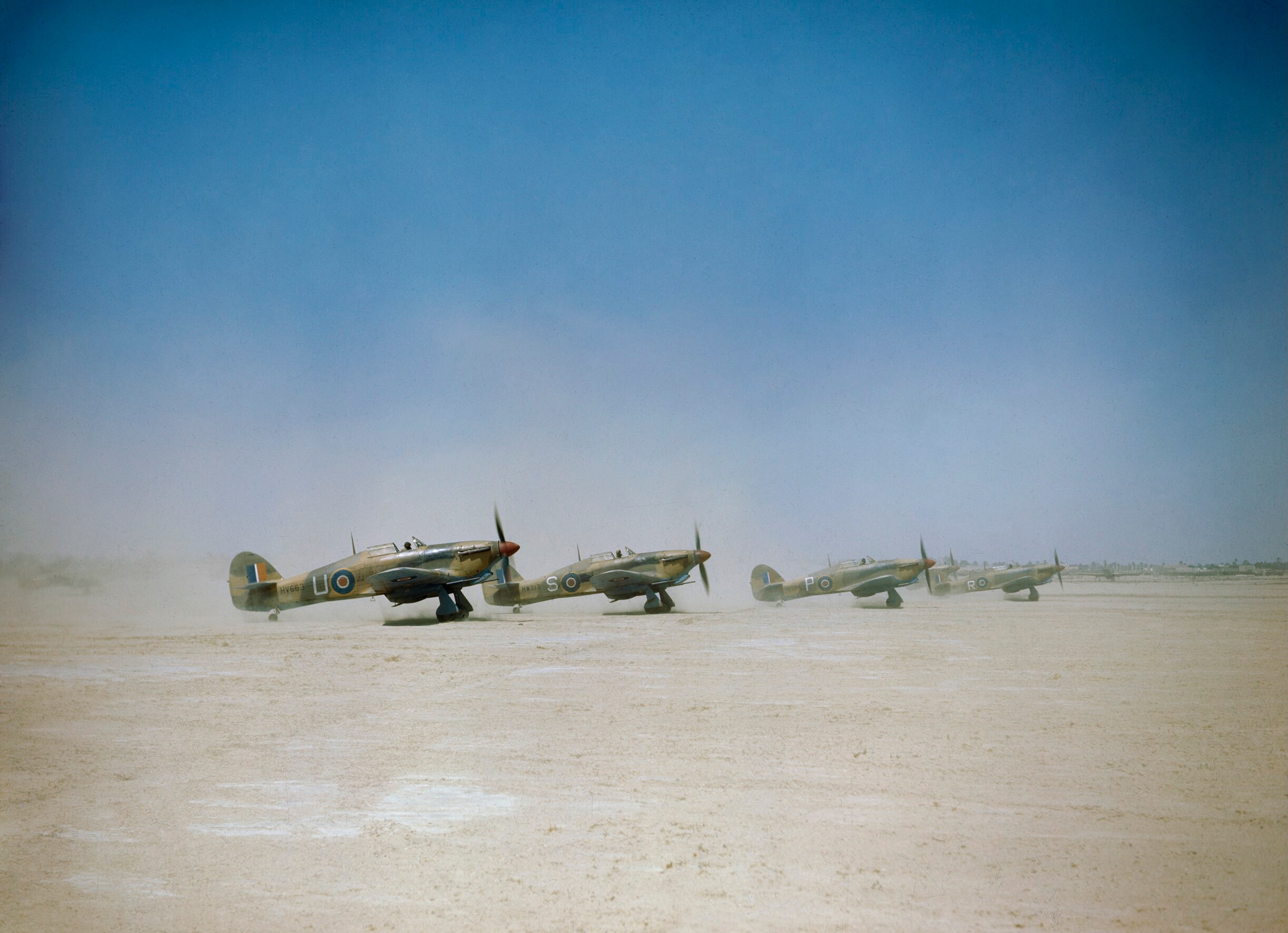 Hawker Hurricane Mark IID 'tank busters' of No. 6 Squadron about to take off from Gabes in Tunisia, 6 April 1943. Hawker Hurricane Mark IIDs of No 6 Squadron, Royal Air Force rolling out at Gabes soon after noon on 6 April 1943 for a tank-busting raid.